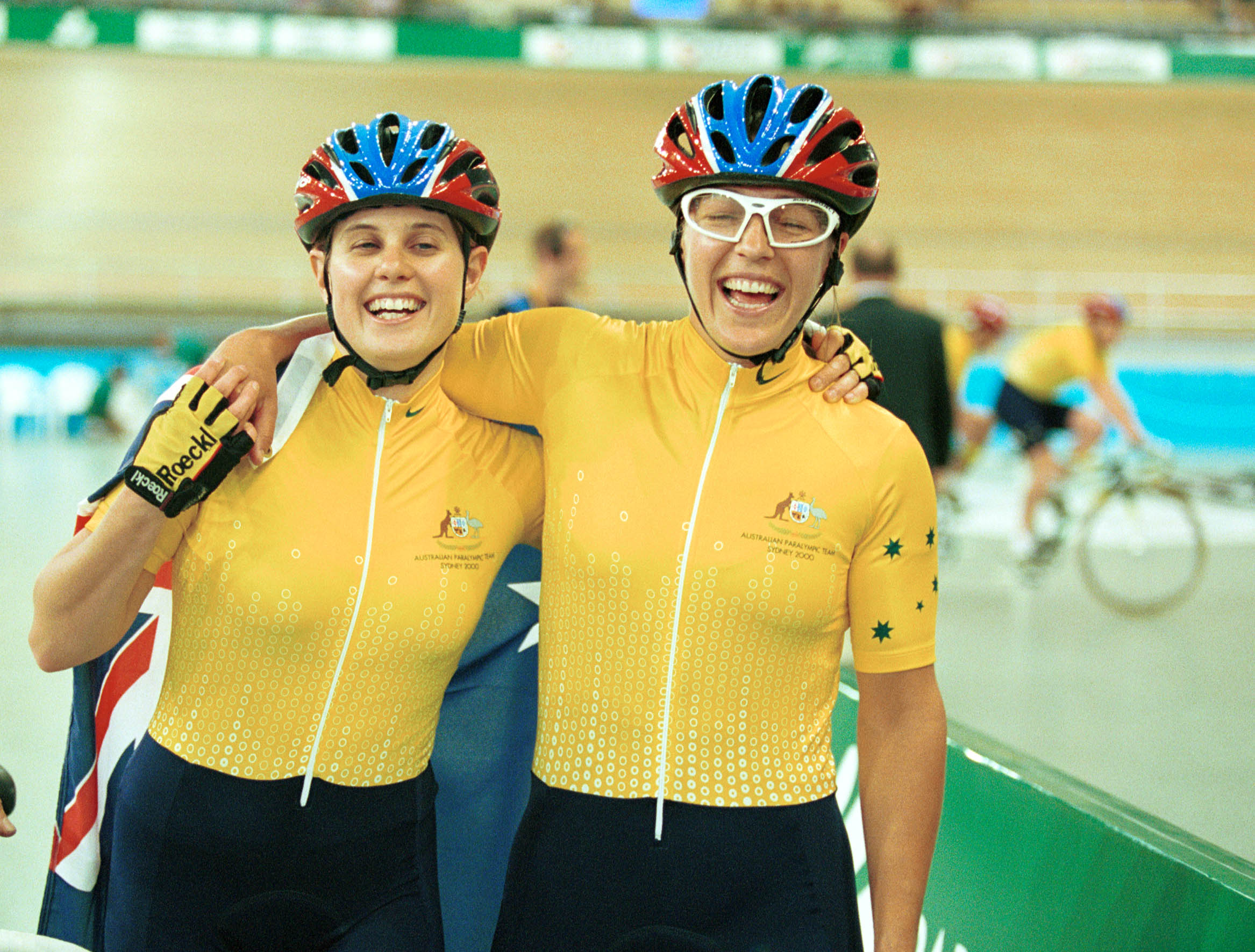 Portrait of Australian track cyclists Sarnya Parker and Tania Modra happy and smiling after winning gold in the 2000 Sydney Paralympic Games Women's Tandem Individual Pursuit Open